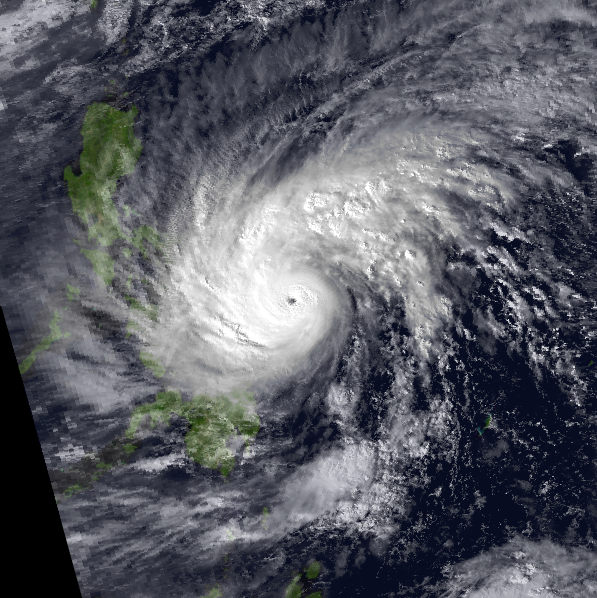 Image of Typhoon Durian of the 2006 Pacific typhoon season on November 29, 2006.